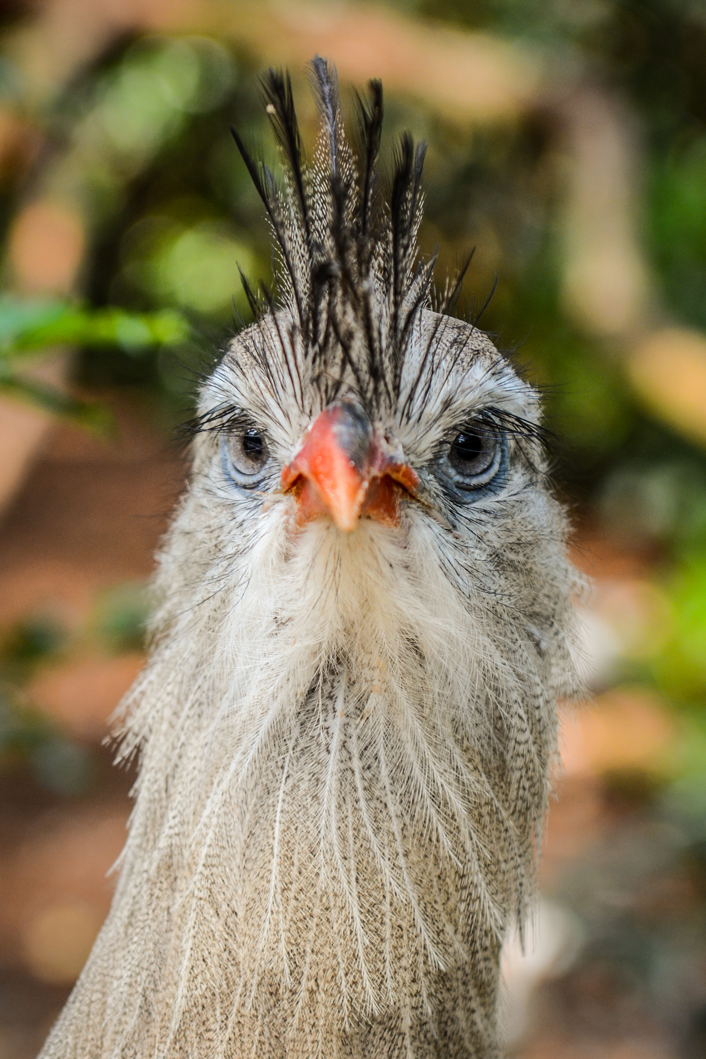 Front view of the Red-legged Seriema (Cariama cristata) at Weltvogelpark Walsrode (Walsrode Bird Park, Germany)